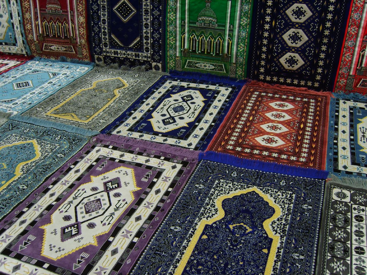 Carpets in Kairouan (Tunisia).